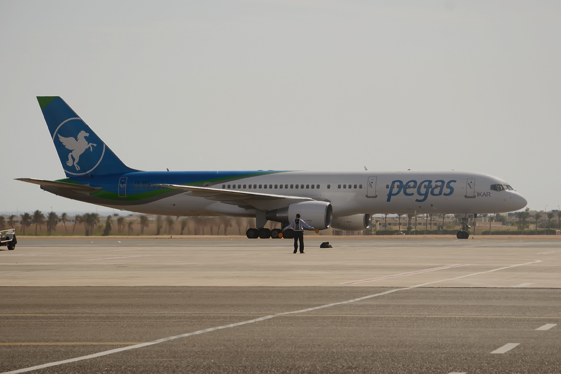 Sharm el Sheikh (Ophira) - International (Ras Nasrani) (SSH / HESH)